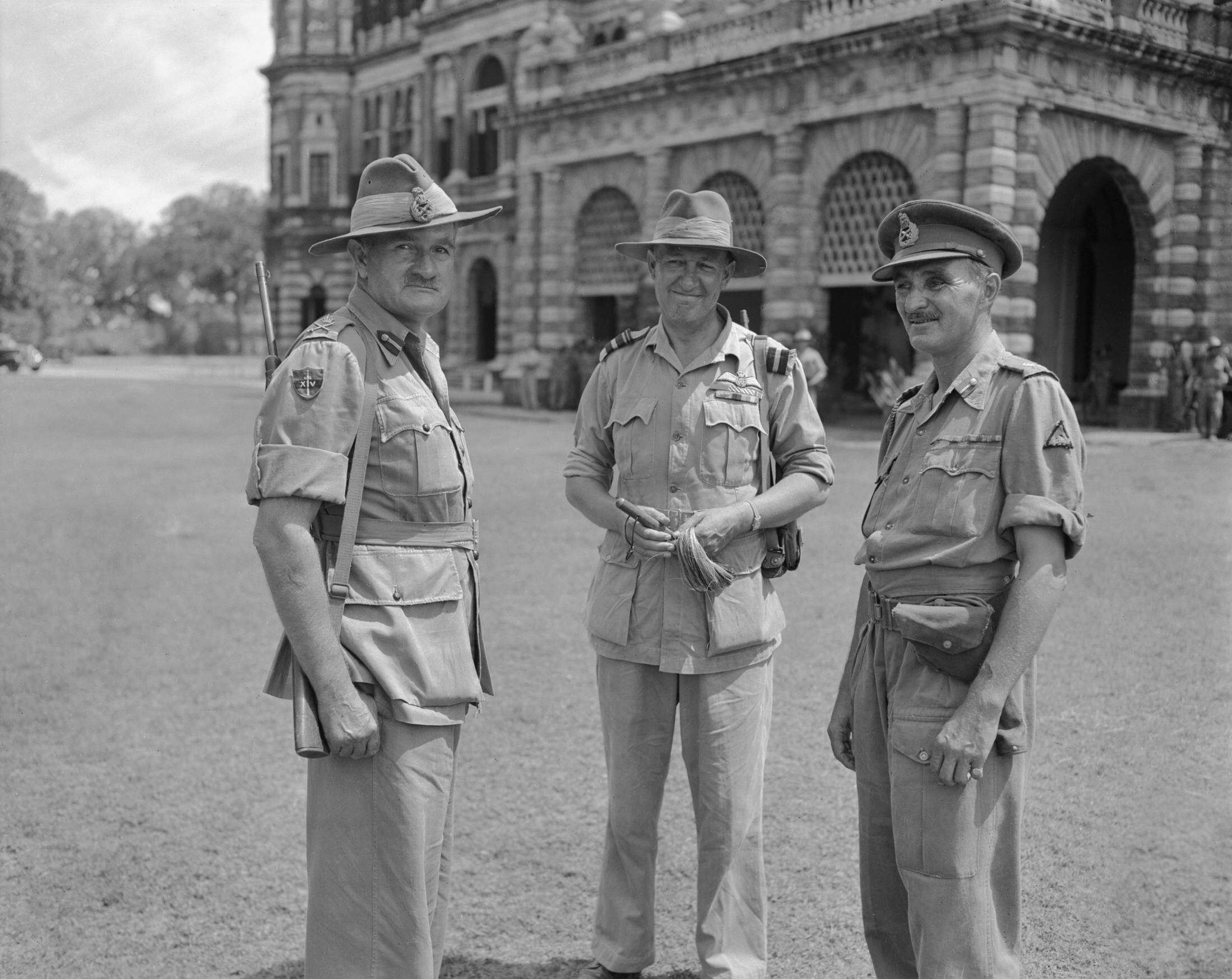 The British Army in Burma 1945 Lieutenant General Sir William Slim (GOC-in-Chief 14th Army), Air Vice Marshal Vincent (AOC 221 Group South East Asia Air Forces) and Major General H M Chambers at Government House in Rangoon, 8 May 1945.